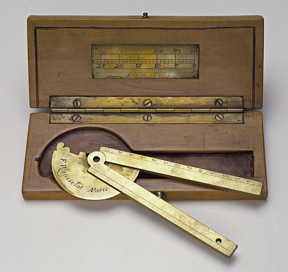 AuthorF. RousselotDescription